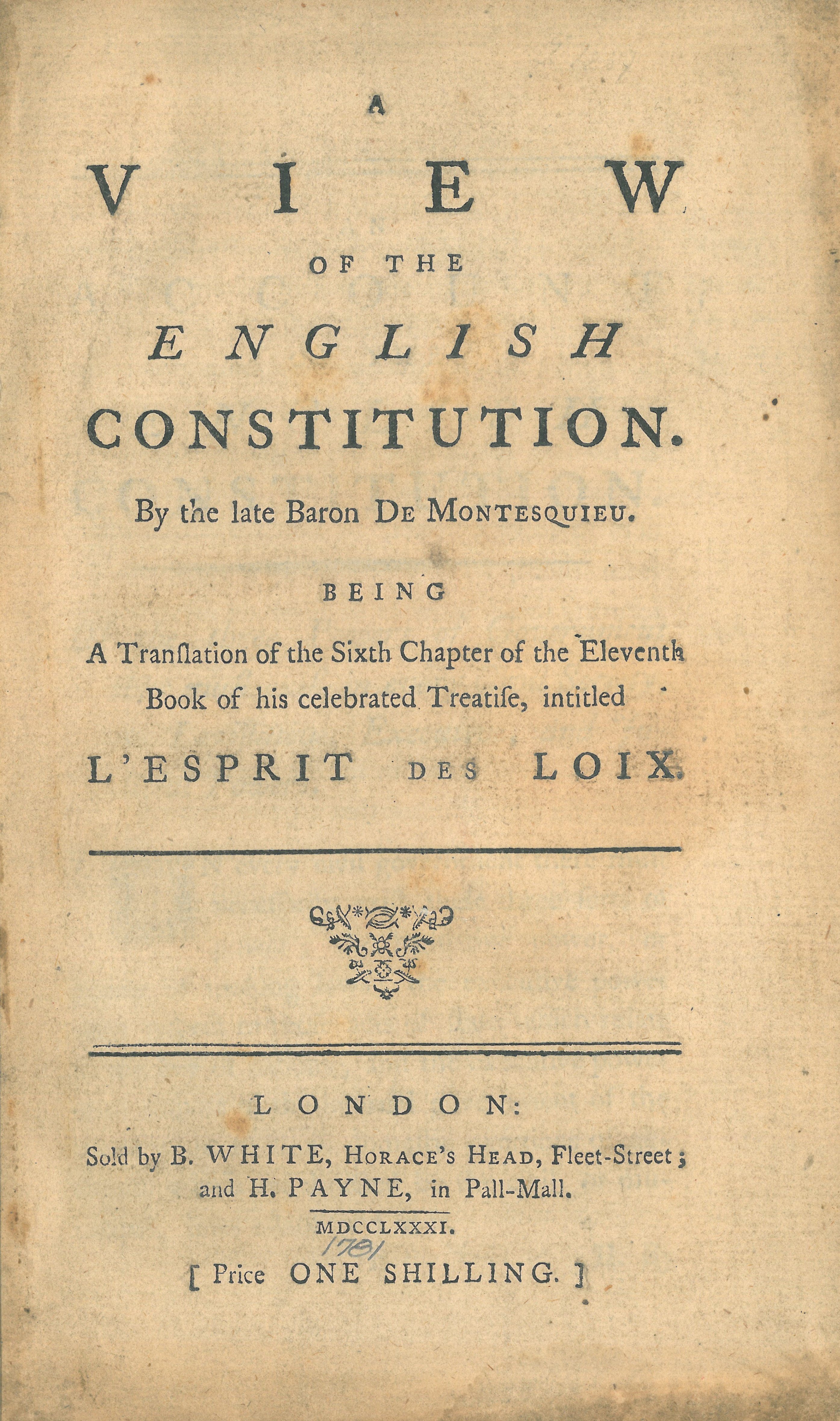 Title page of Charles-Louis de Secondat, baron de Montesquieu; Francis Masères, transl. (1781) A View of the English Constitution. By the late Baron de Montesquieu. Being a Translation of the Sixth Chapter of the Eleventh Book of his Celebrated Treatise, Intitled L'Esprit des loix, London: Sold by B. White, Horace's Head, Fleet-Street; and H. Payne, in Pall-Mall OCLC: 642722808.